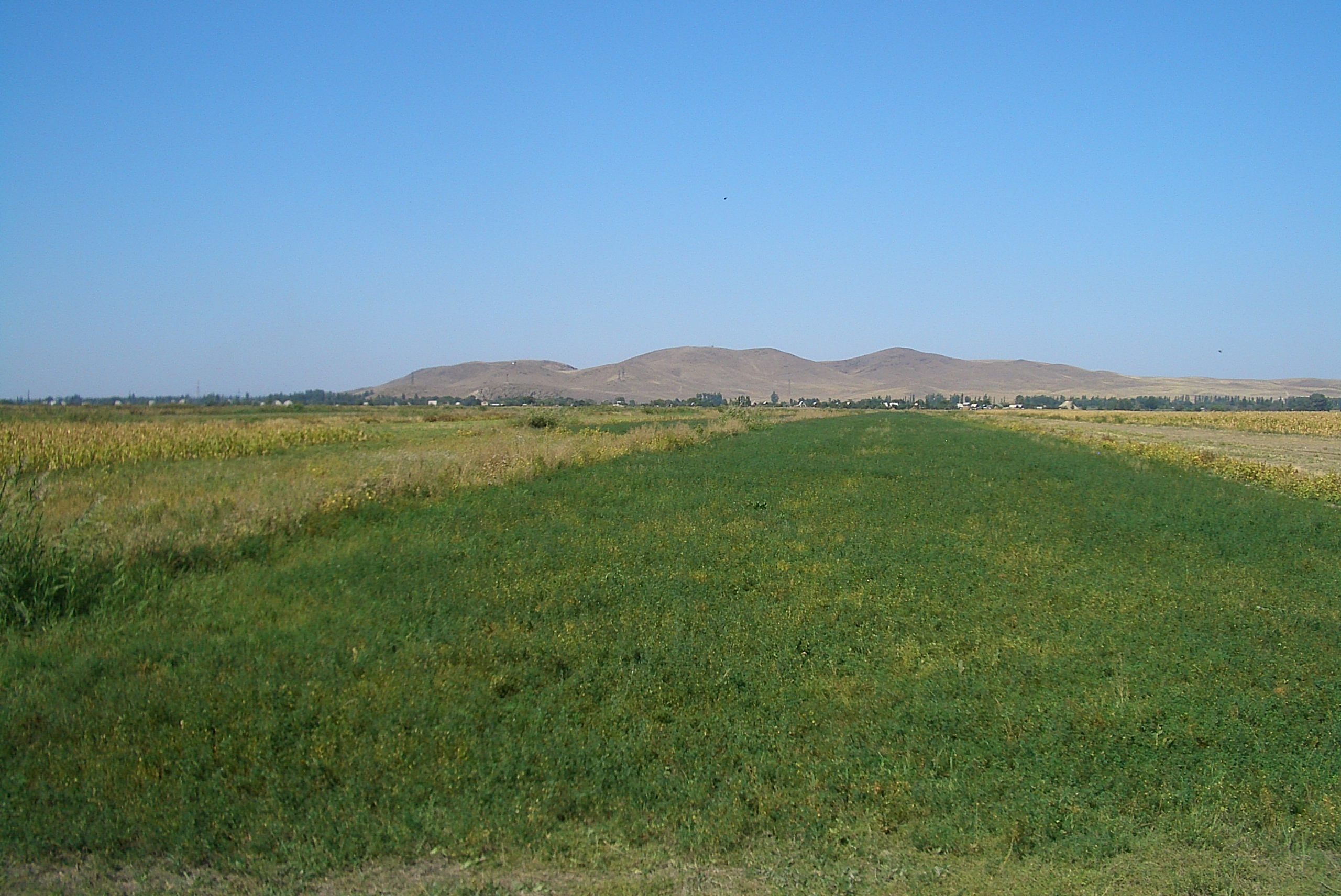 Irrigated fields in the Chuy River Valley. The picture is taken west of Milyanfan, a village on the Kyrgyz side of the river. The hills in the background are already on the Kazakh side (Korday District, Zhambyl Province).